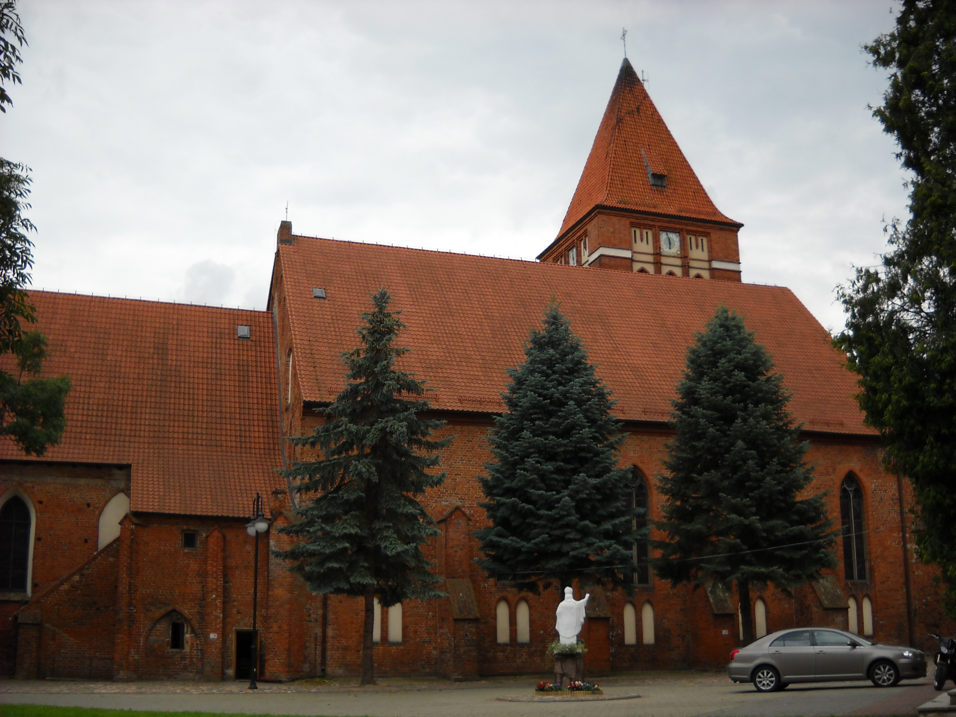 St. Bartholomew church, Pasłęk